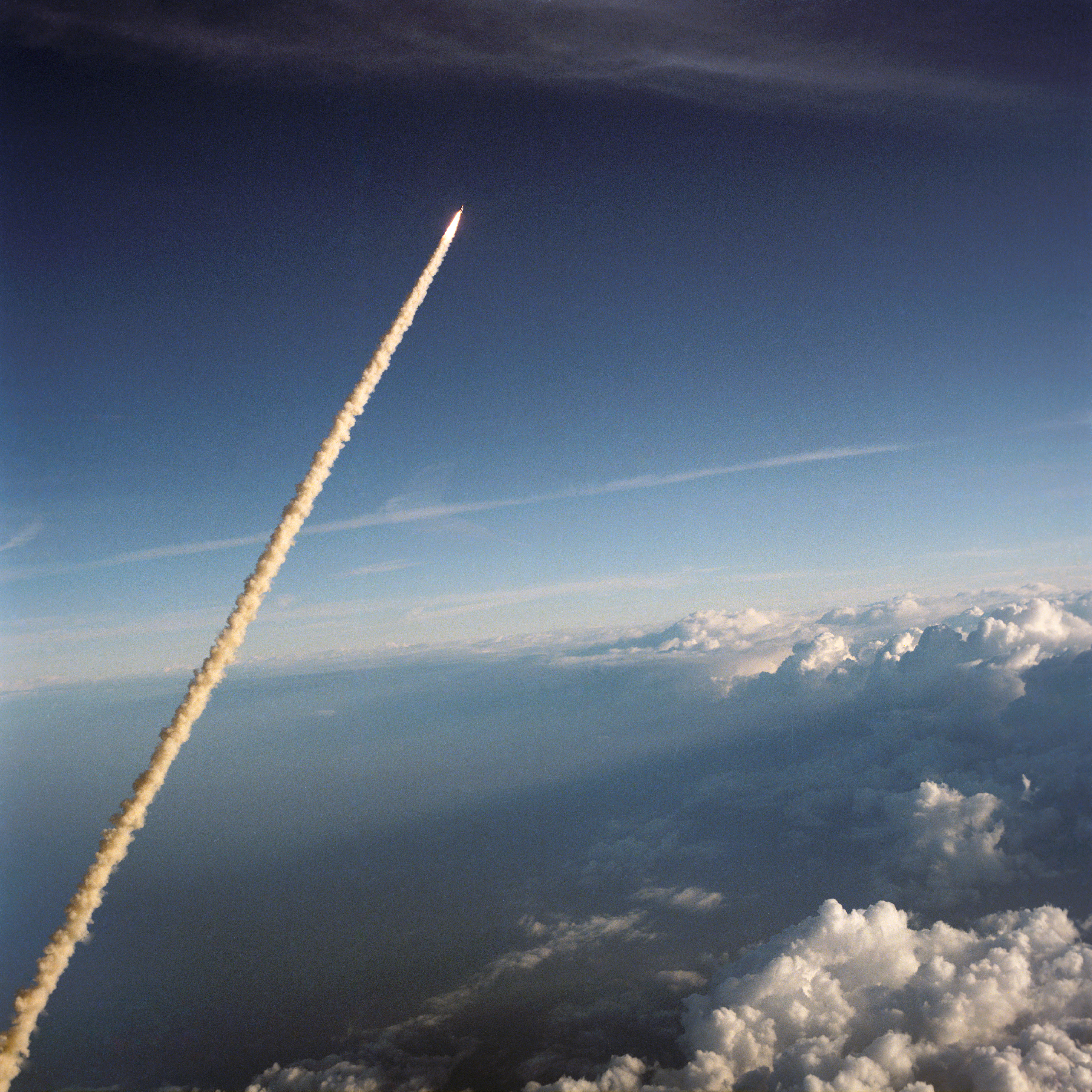 (February 3, 1984) The Space Shuttle Challenger lifted off from Kennedy Space Center's Launch Pad 39A on mission STS 41-B. Aboard the Challenger were astronauts Vance D. Brand, Robert L. Gibson, Ronald E. McNair, Bruce McCandless II, and Robert L. Stewart. Image #: S84-26294